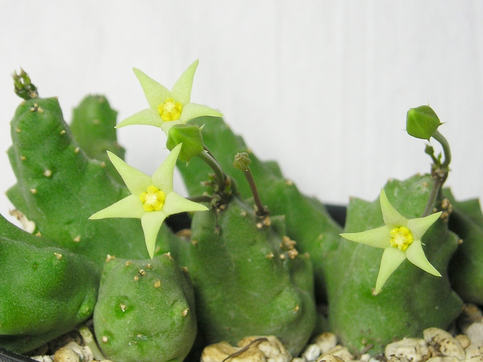 Piaranthus parvulus Creative Commons Licence BY 2.0 Quellenangabe / Credit: Photo by Maja Dumat - CC BY 2.0